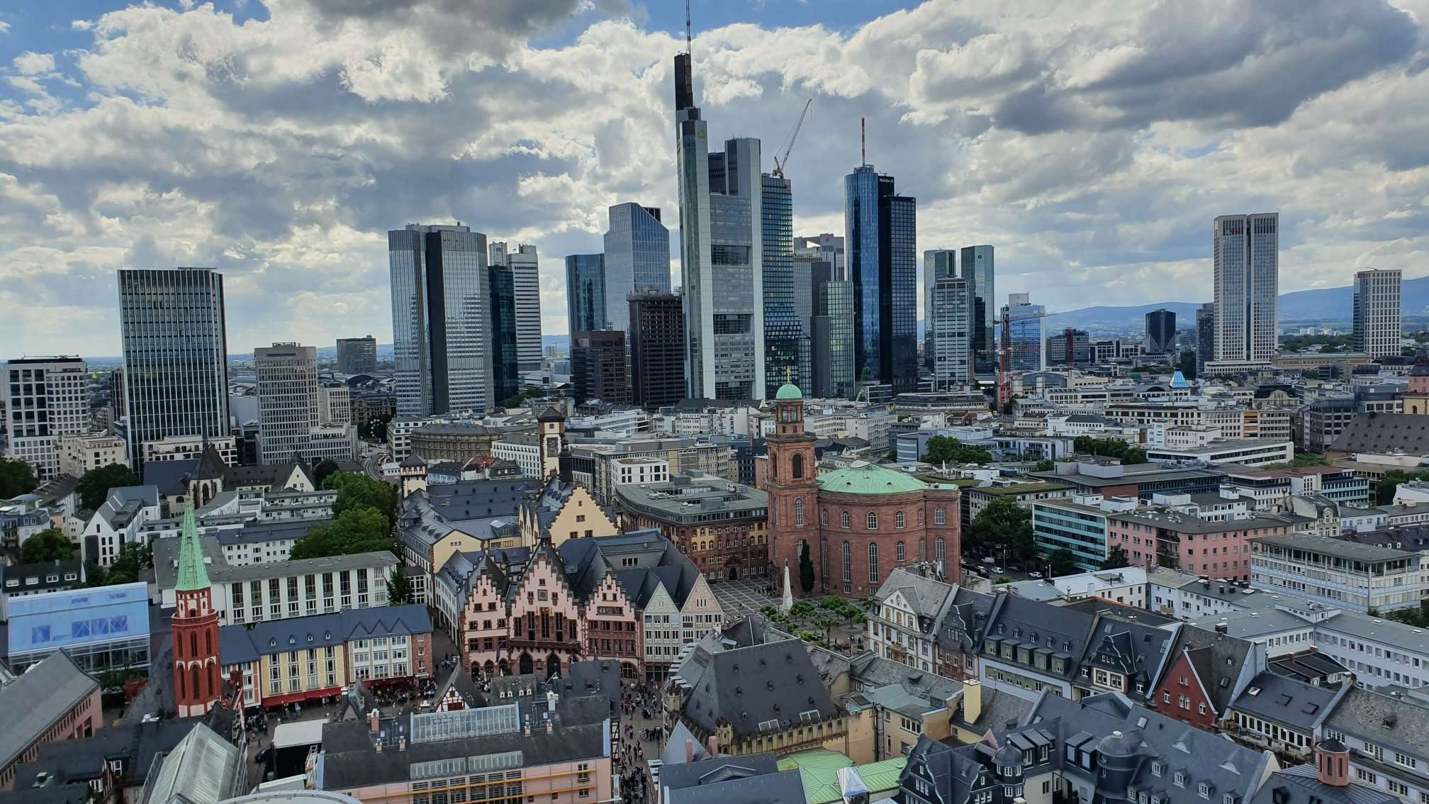 This image show the central Business district of the German city Frankfurt am main at daytime. It has been taken from the top of the Frankfurt cathedral. Towards the bottom you can see the main square and town hall, behind which you can see the Paulskirche.